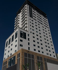 Christchurch tallest building the Pacific Tower